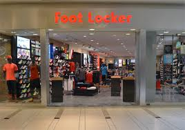 footlocker outlet